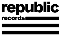 Logo of Republic Records, launched in 2012.